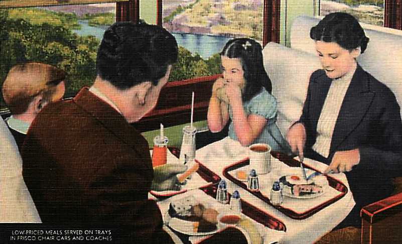 Postcard photo of non-dining car meal service on the Frisco Railroad. Some railroads served meals on trays in coach cars at a less expensive price than those served in the dining car.